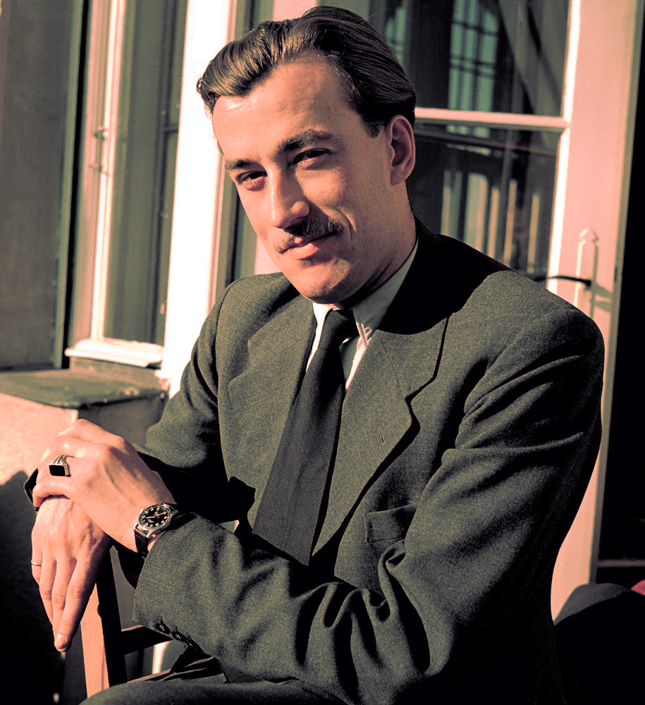 Walter E. Lautenbacher 1954